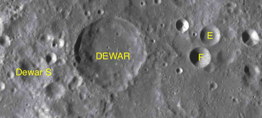 Part of the chart LAC-85 used for the presentation